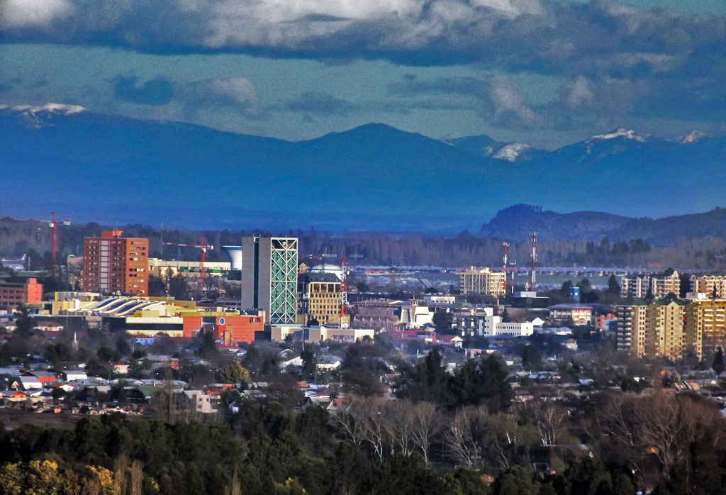 Año 2014